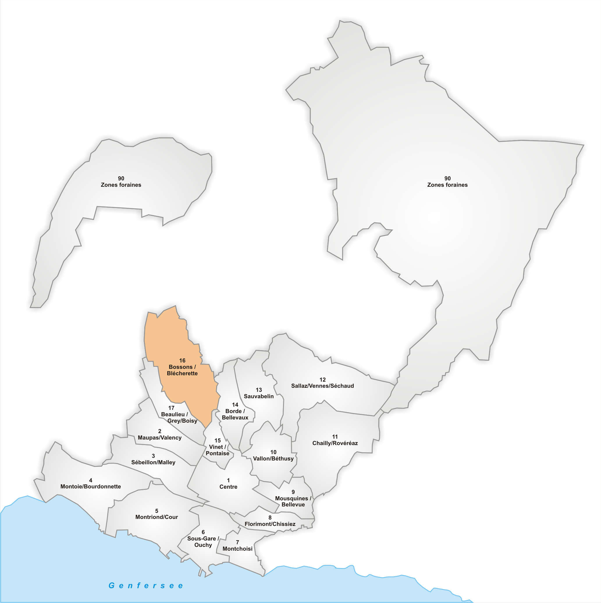 Lausanne Quarter 16